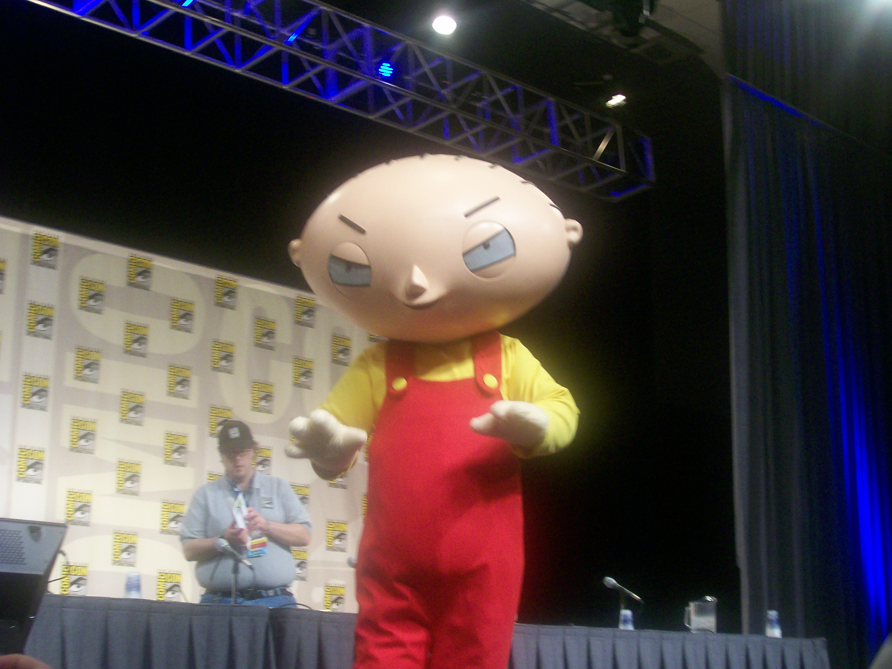 Life-sized costume of Stewie Griffin.